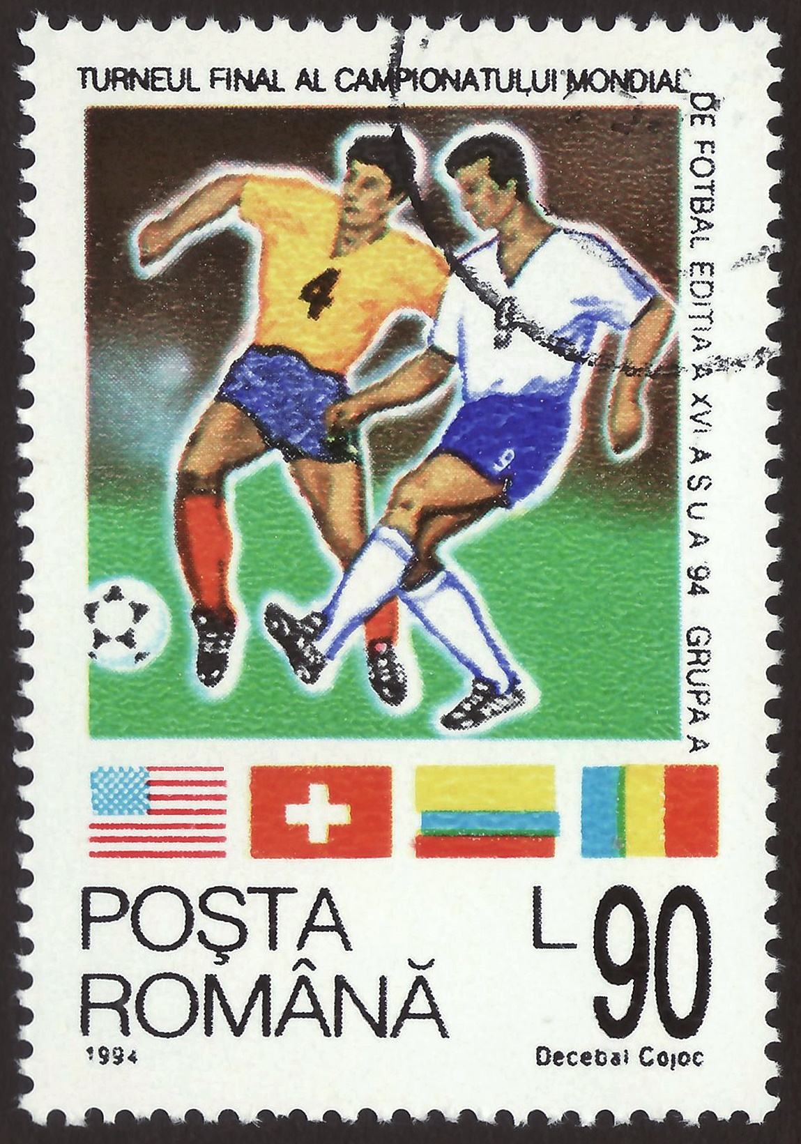 Stamp of Romania; 1994; commemorative stamp of the issue "1994 World Championship Soccer in the USA"; stamp motive with a soccer match scene and the national flags of the participant teams in the preliminary group A: USA, Switzerland, Colombia, and Romania.; stamp postmarked Stamp: Michel: No. 4992; Yvert & Tellier: No. 4170; Scott: No. 3923 Color: multicolored Watermark: none Nominal value: 90 L (Lei) Postage validity: from 17 June 1994 until ? Stamp picture size (printed area of a single stamp without signature line): 28.0 x 42.5 mm